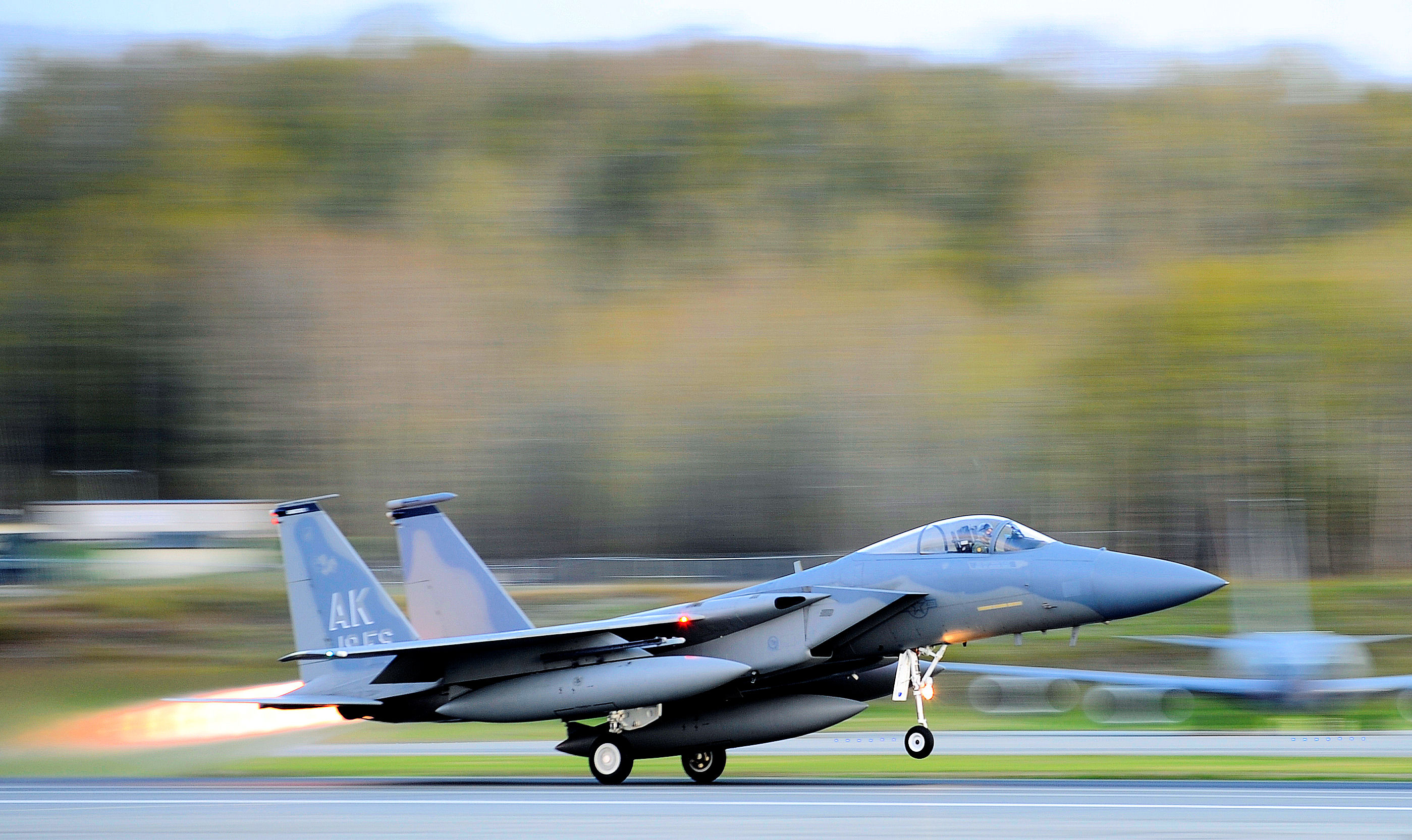 The 19th Fighter Squadron's F-15 Eagle flagship takes off for the final time at Elmendorf Air Force Base, Alaska, May 13. The aircraft is going to the depot at Robins Air Force Base, Ga., for refurbishing then reassignment. (Air Force photo by Staff Sgt. Brian Ferguson)